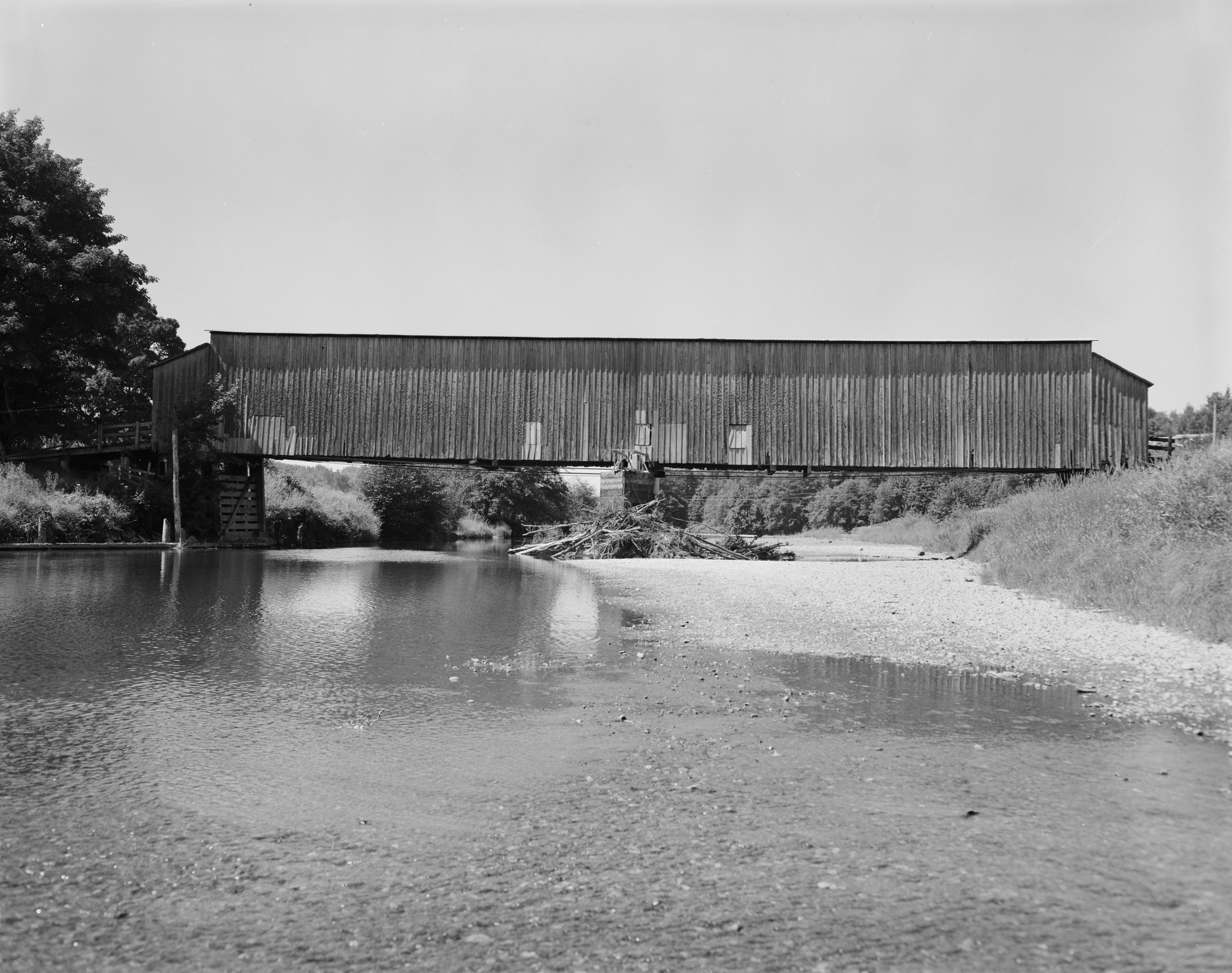 The Grays River Covered Bridge near Grays River, Washington.